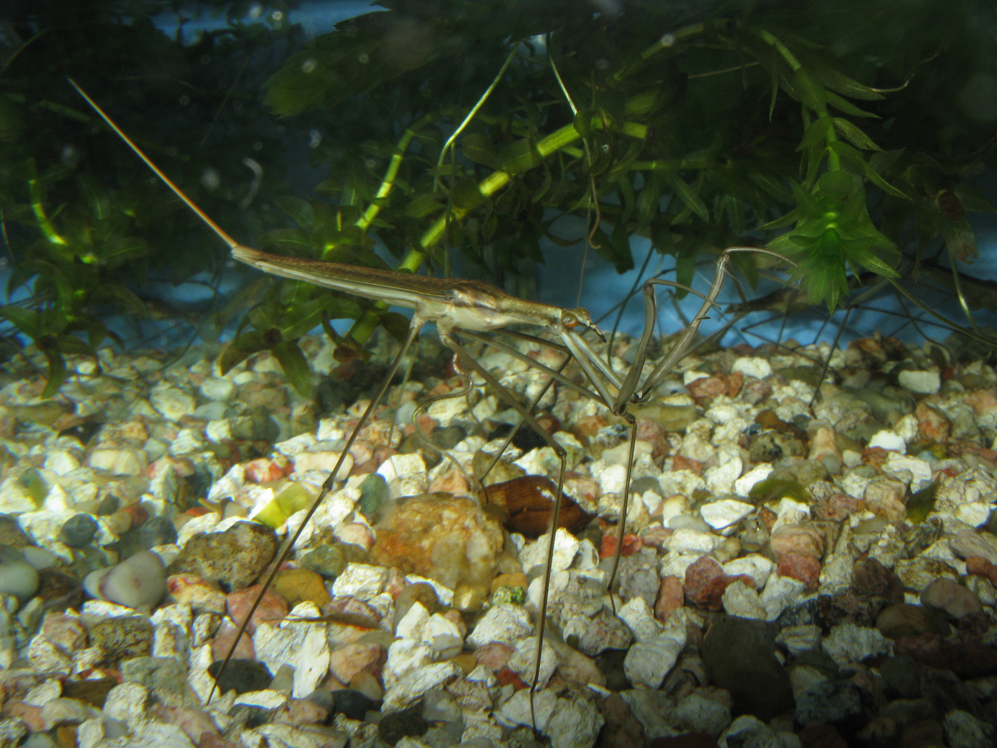 Ranatra chinensis, Itami City Museum of Insects, Hyogo, Japan